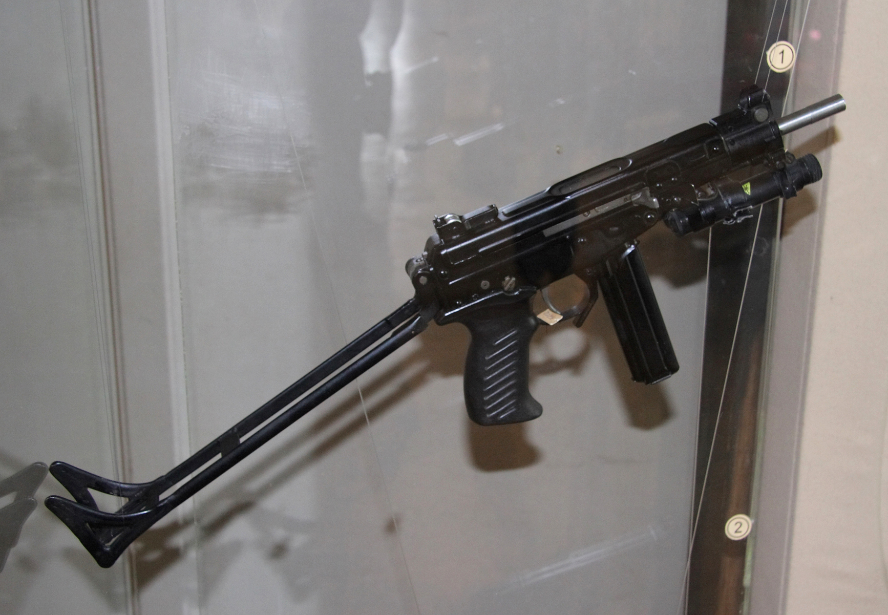 OTs-02 Kiparis submachine gun - Tula State Arms museum 2008